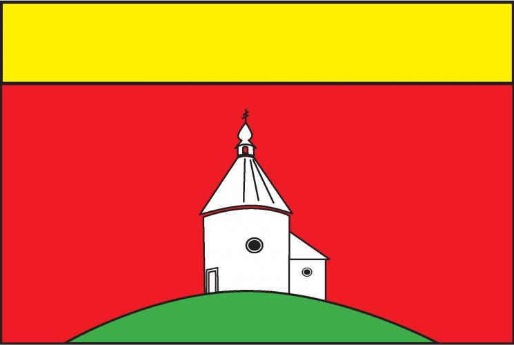 Flag of Štěpkov, Třebíč District, Czechia